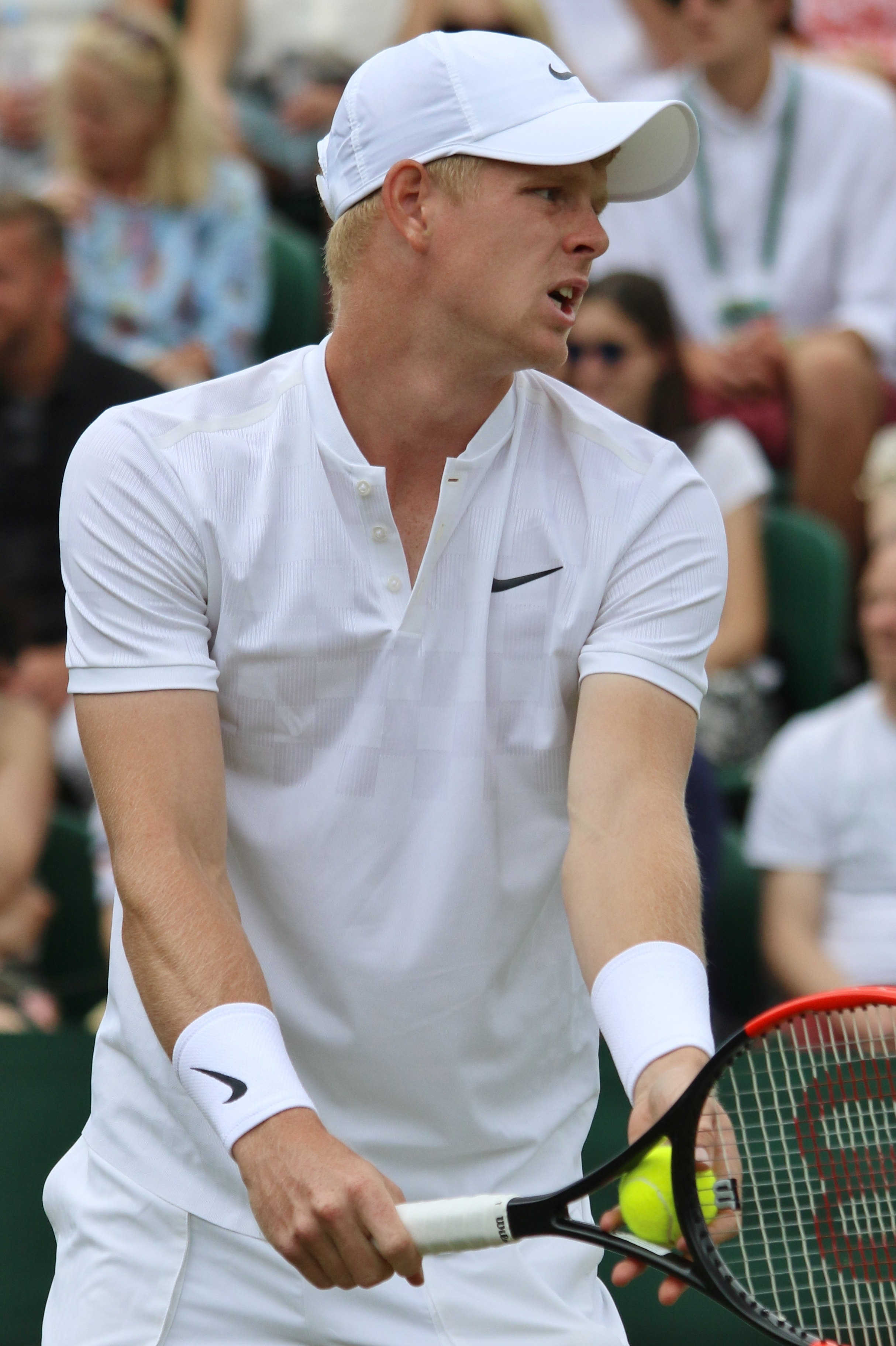 Edmund WM17 (12)